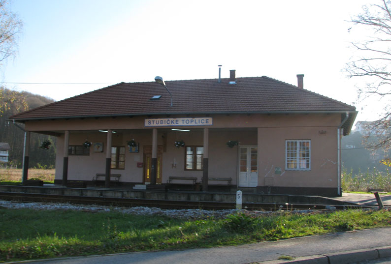 Stubičke Toplice, train station